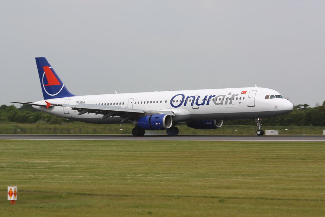 TC-OAK, Onur Air Airbus A321-231, landing on 05R at Manchester.